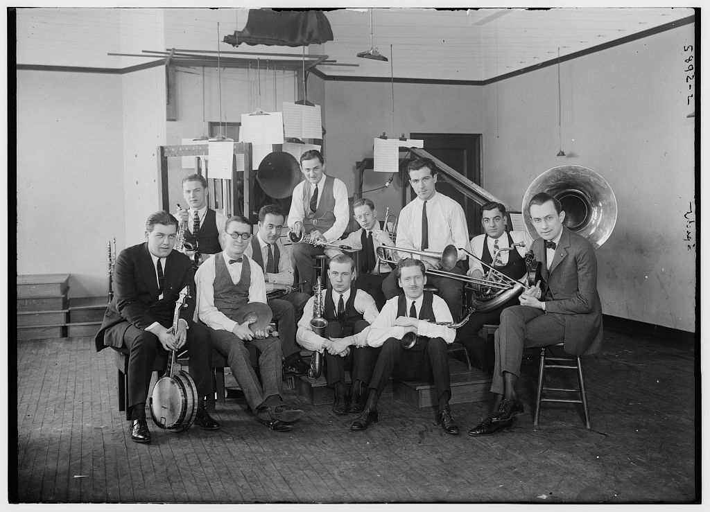 Paul Specht (1895-1954) and his orchestra in a recording studio. Musicians include Chauncey Morehouse (drums; holding cymbal), Frank Guarente (trumpet; next to Morehouse) and Arthur "The Baron" Schutt (piano; holding saxophone(!) in the middle of the back row). Specht himself is to the extreme right.